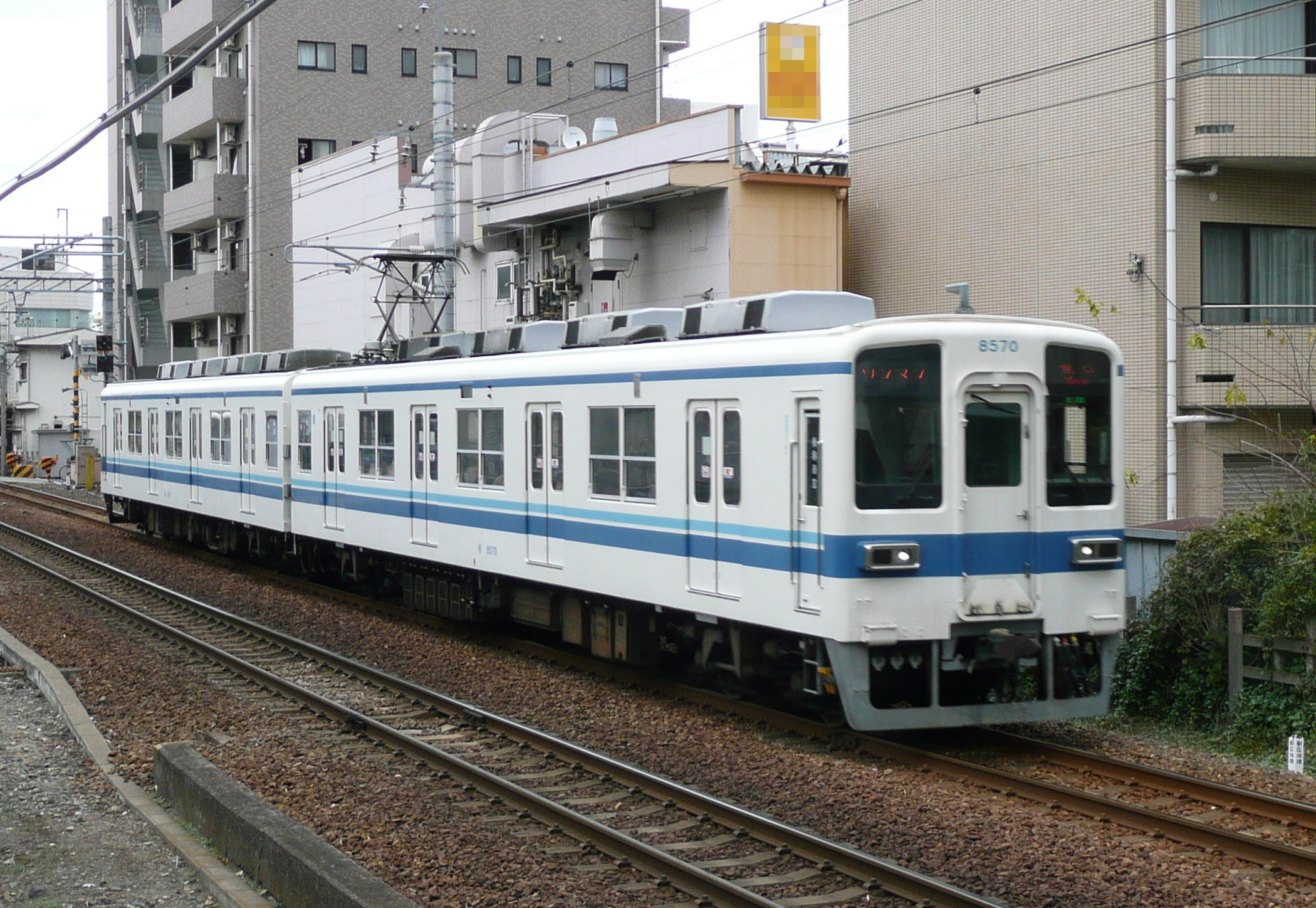 Tobu 8000 series two-car EMU set 8570 on the Tobu Kameido Line between Higashi-Azuma and Kameidosuijun stations